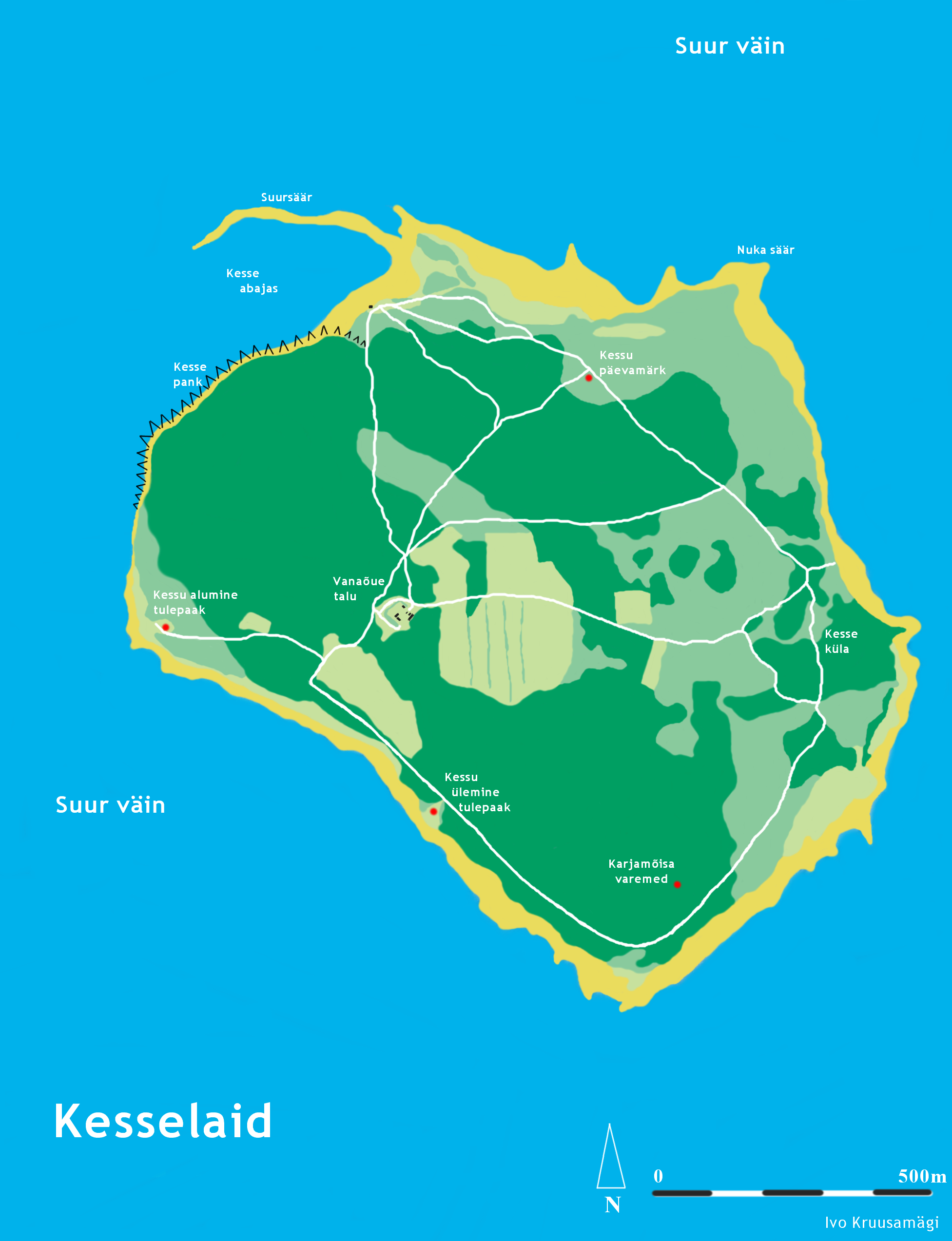 Map of Kesselaid (island in Estonia) with names.